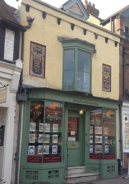 173 High Street Berkhamsted. Behind this shop front is the Oldest known urban building in England dated at between 1277–97.